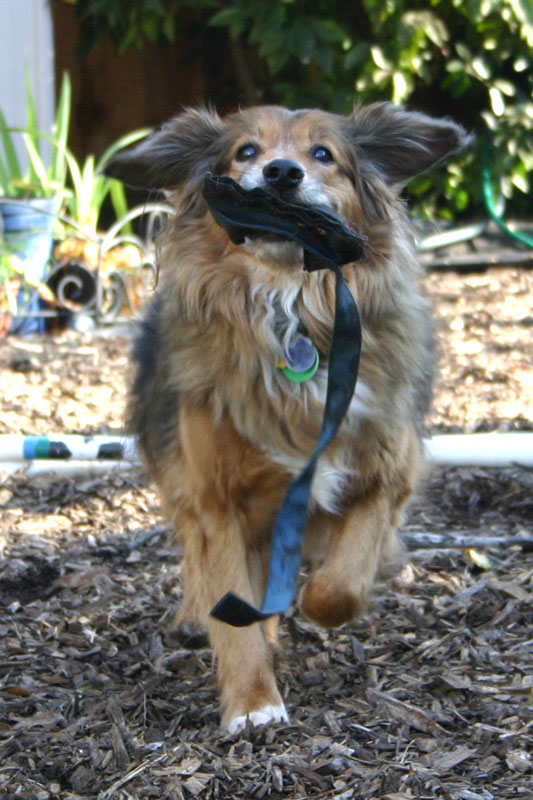 A mixed-breed dog playing fetch in San Jose, California.